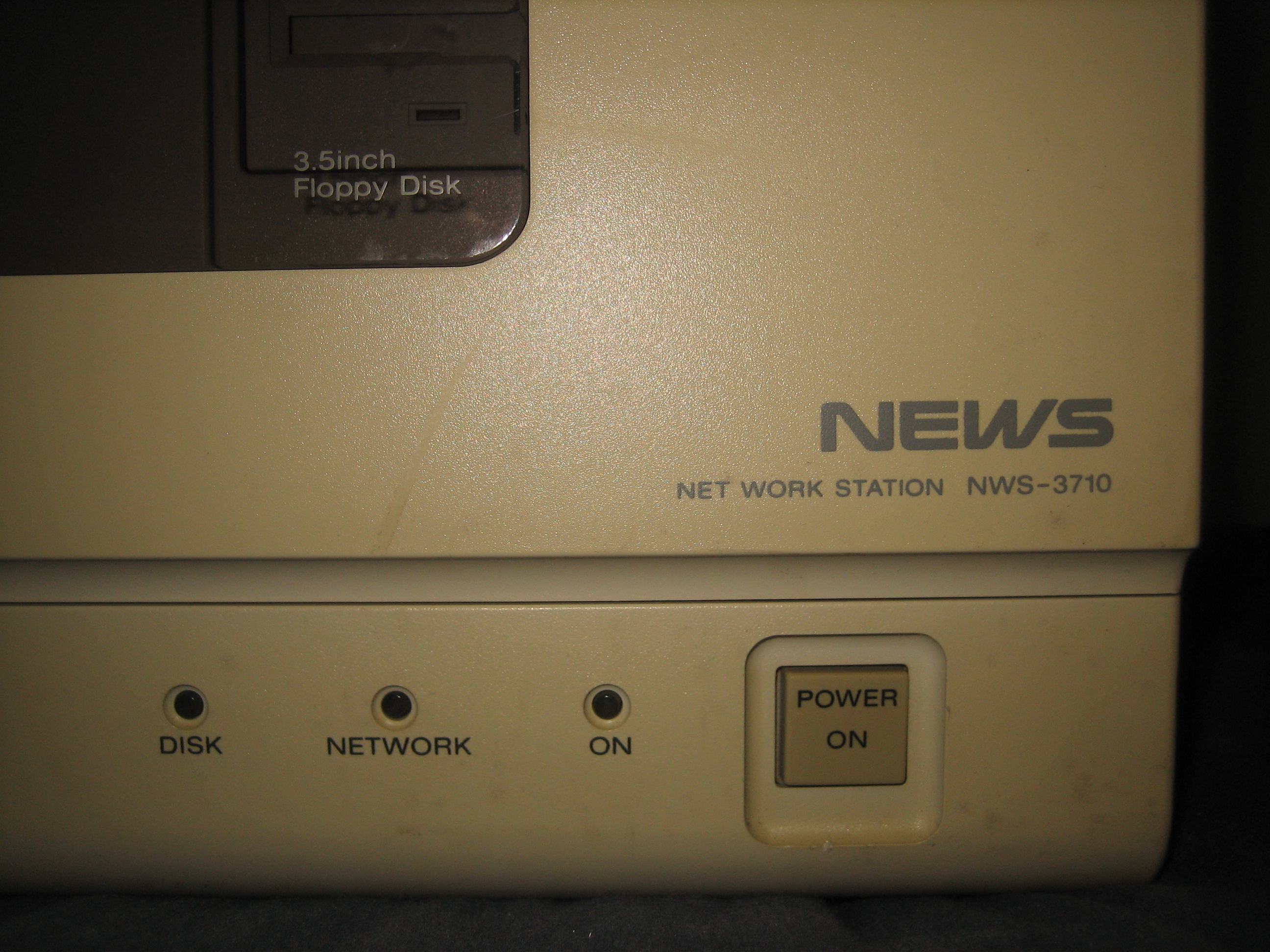 Detail view of the front of a Sony NeWS UNIX Workstation showing its model, power button, and status lights.